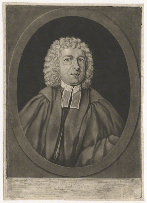 Portrait of Richard Rawlinson (1690–1755), English clergyman and antiquarian.